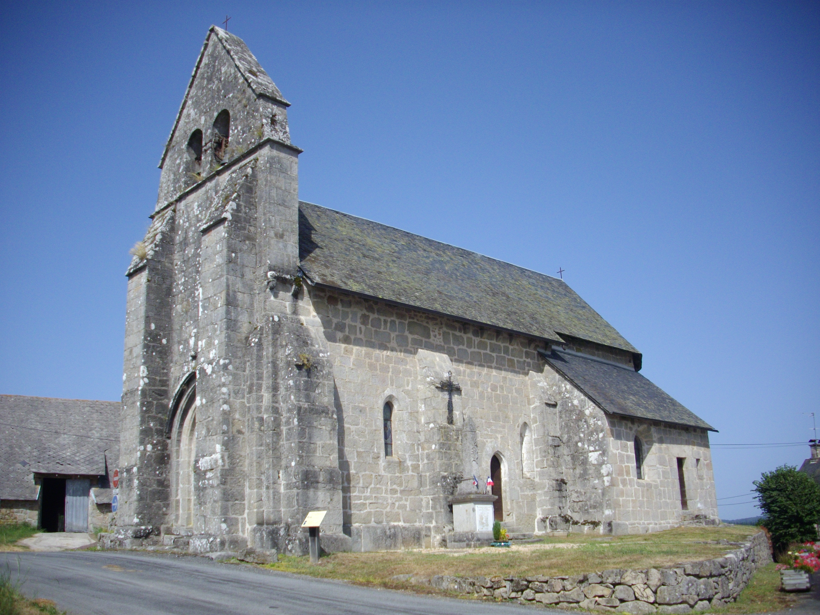 Our Lady church of Sainte-Marie-Lapanouze (Corrèze, France) .